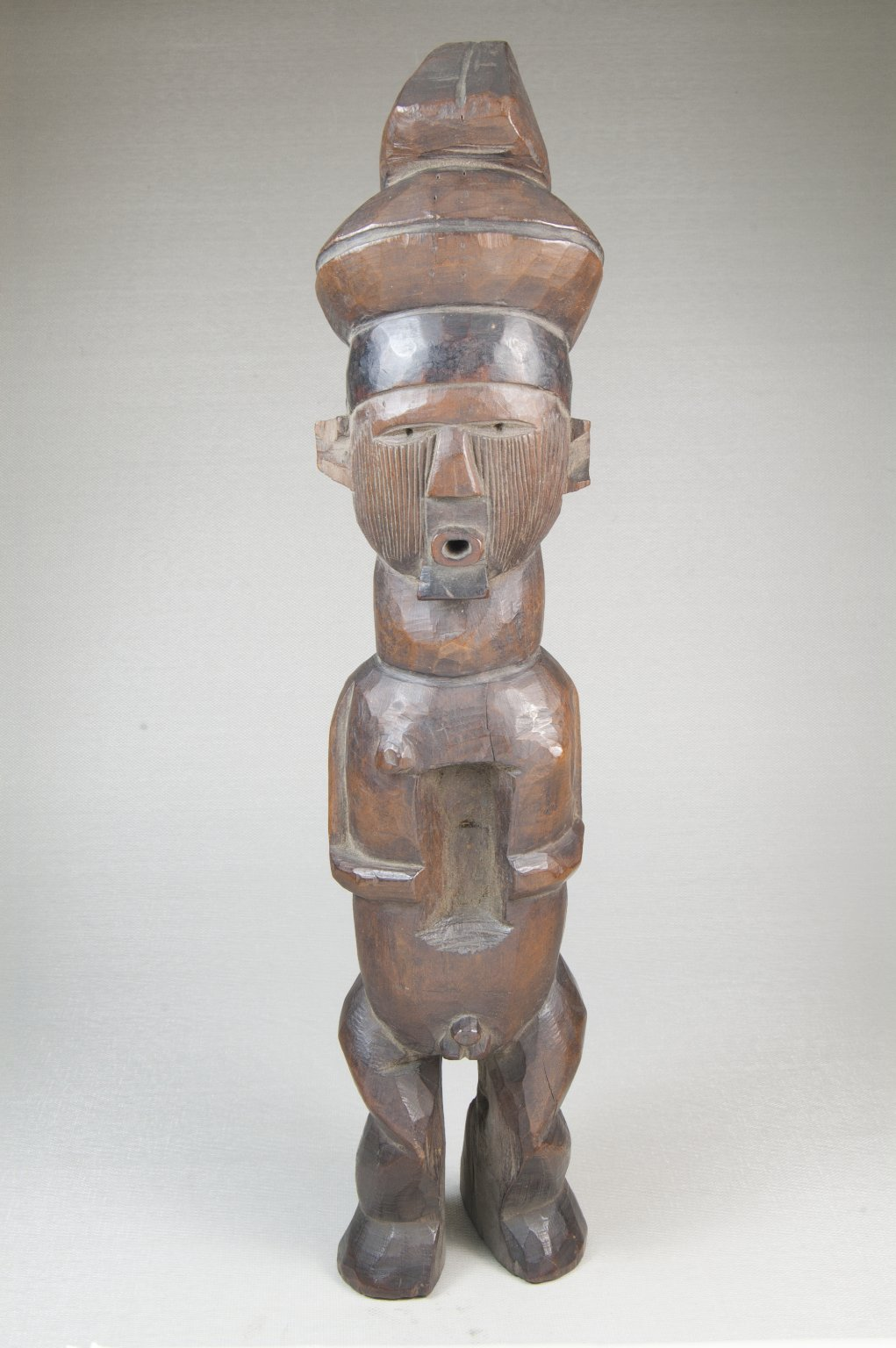 Standing Male Figure